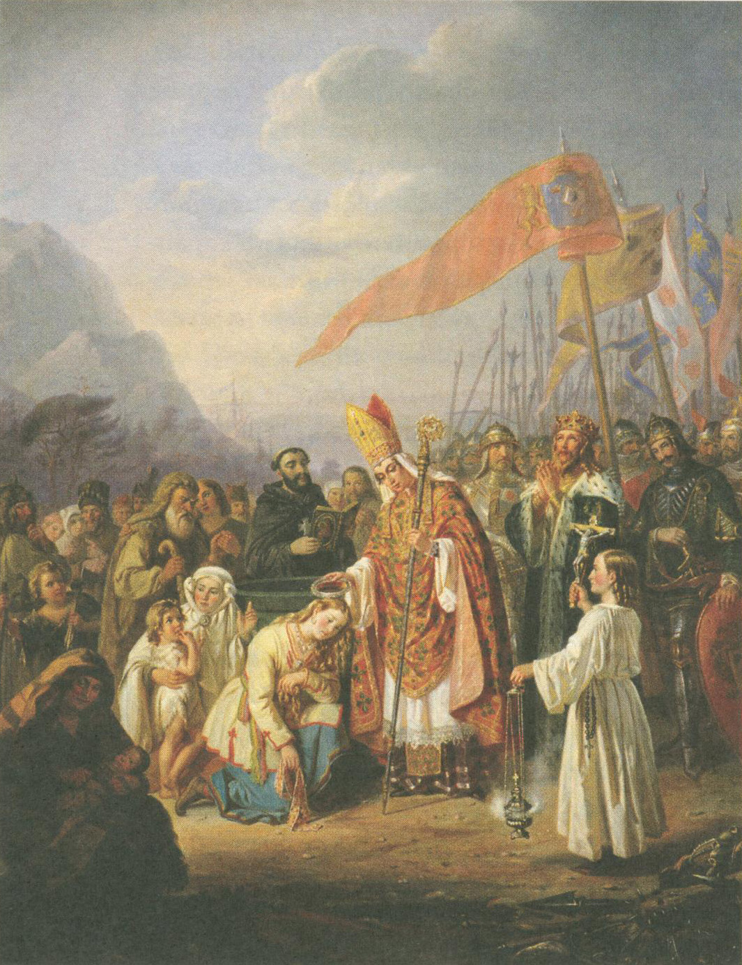 Bishop Henry baptizes the Finns at the spring of Kuppis, close to Turku. Painting by R.W. Ekman, also made in large format in the cathedral of Turku in 1850-54, depicts pagans in decorative folk costumes and a very pious king, over whose head massed standards with a Swedish coat of arms fly.